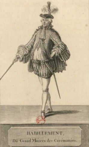 Joachim de Dreux-Brezé, Grand-maître des Cérémonies de France